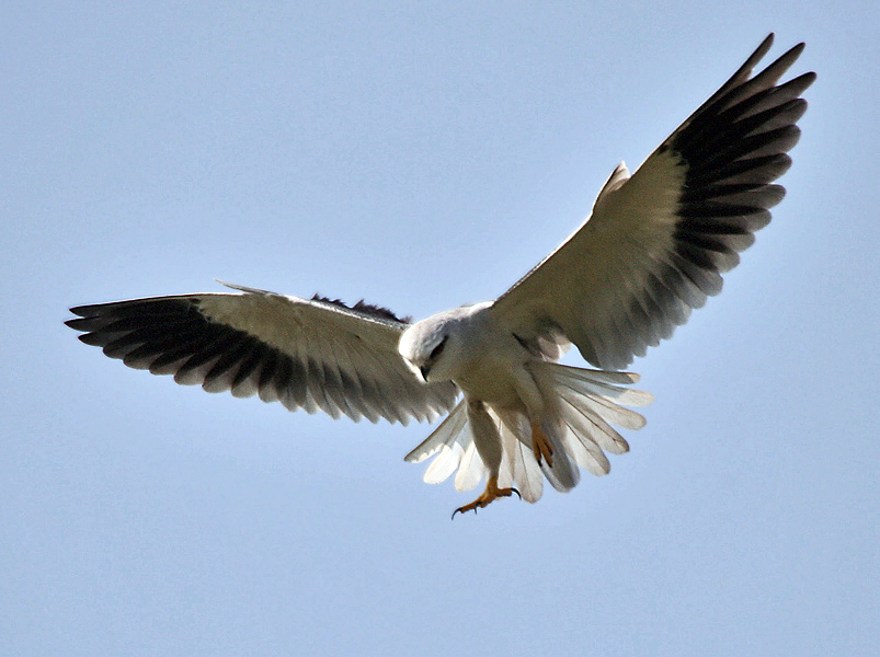 Black-winged Kite Elanus caeruleus in Hyderabad, India.